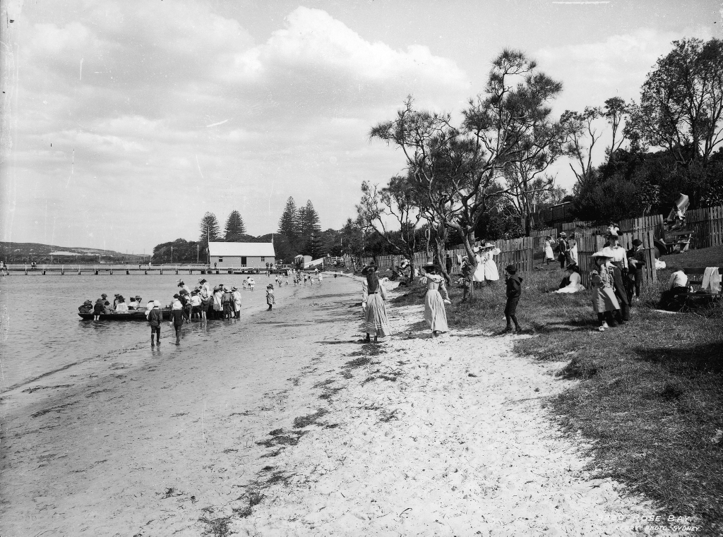 'Beaches' Pictures from The Powerhouse Museum This files was posted to Flickr by The Powerhouse Museum (See their website for further information). Many thanks to the Powerhouse Museum for helping release this wonderful material. This tag does not indicate the copyright status of the attached work. A normal copyright tag is still required. See Commons:Licensing for more information. This image is of Australian origin and is now in the public domain because its term of copyright has expired. According to the Australian Copyright Council (ACC), ACC Information Sheet G023v17 (Duration of copyright) (August 2014). Type of materialCopyright has expired if ... A Photographs or other works published anonymously, under a pseudonym or the creator is unknown:taken or published prior to 1 January 1955 B Photographs (except A):taken prior to 1 January 1955 C Artistic works (except A & B):the creator died before 1 January 1955 D Published editions1 (except A & B):first published more than 25 years ago E Commonwealth or State government owned2 photographs and engravings:taken or published more than 50 years ago and prior to 1 May 1969 1 means the typographical arrangement and layout of a published work. eg. newsprint. 2owned means where a government is the copyright owner as well as would have owned copyright but reached some other agreement with the creator. When using this template, please provide information of where the image was first published and who created it.